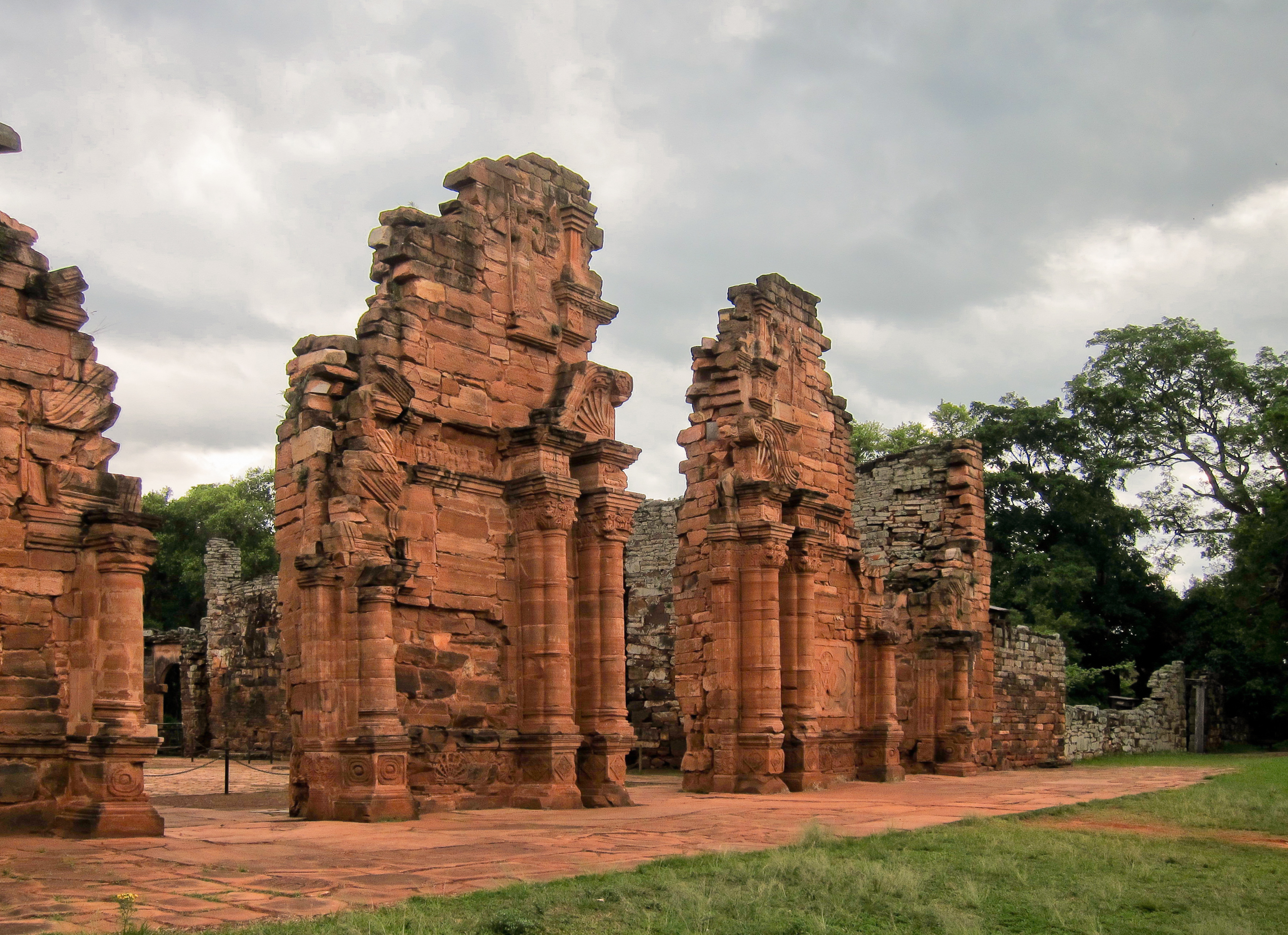 San Ignacio Miní Jesuit mission ruins found in Misiones Province, Argentina.